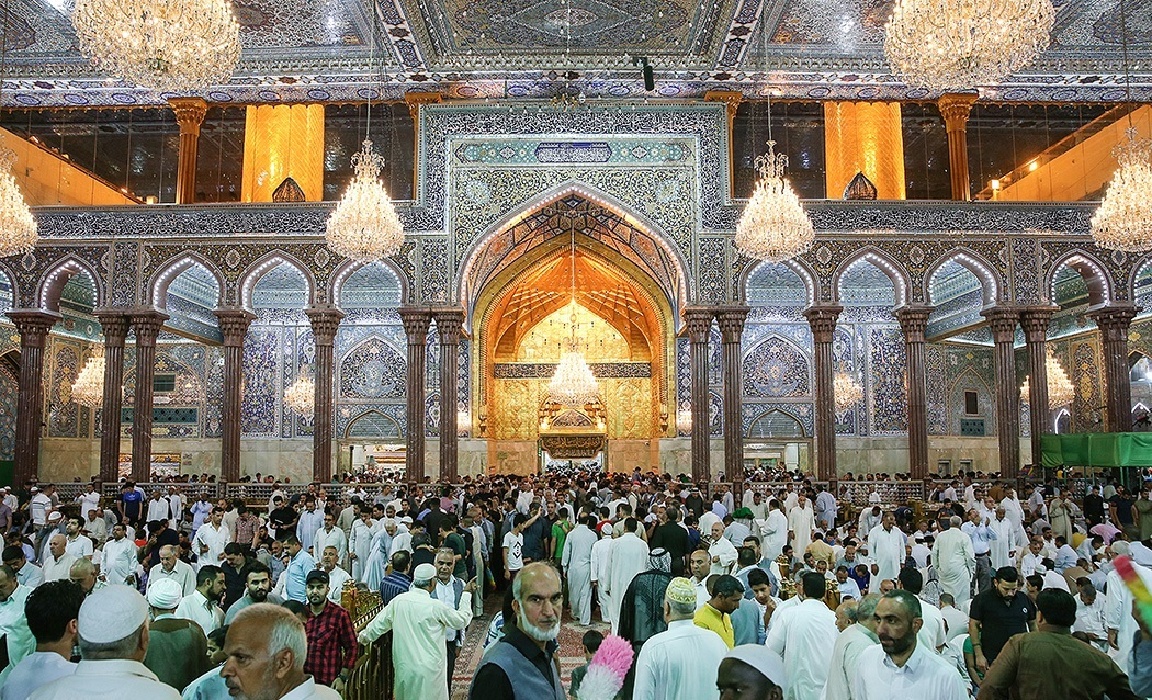 The First Laylat Al Jum'ah of Ramadan 1439 AH in Karbala. main album